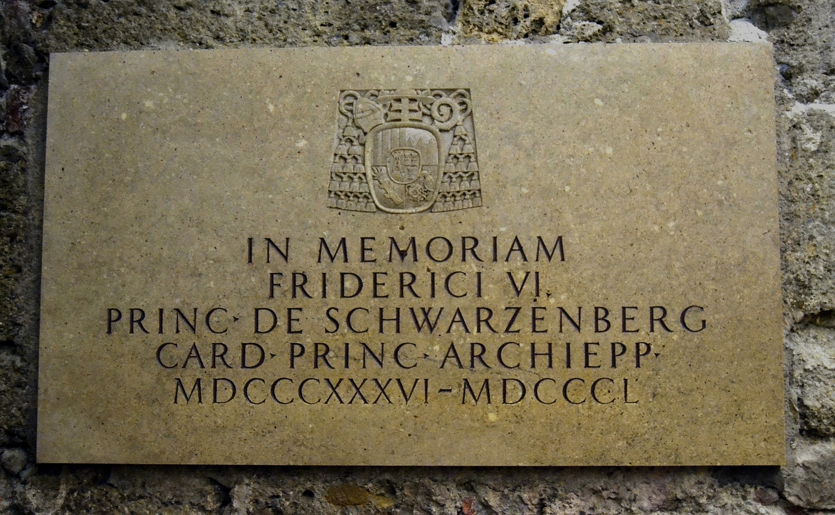 Salzburg Cathedral crypt, room 5: memorial tablet to Archbishop Friedrich zu Schwarzenberg